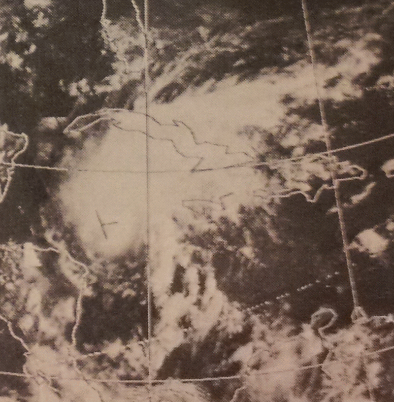 This image of Hurricane Alma was taken by a weather satellite on May 20, 1970